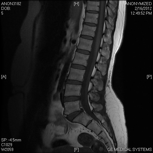 T1 W Sagittal image shows Limbus Vertebra at L5 anterio inferiorly, acquired by 1.5 T MRI scanner